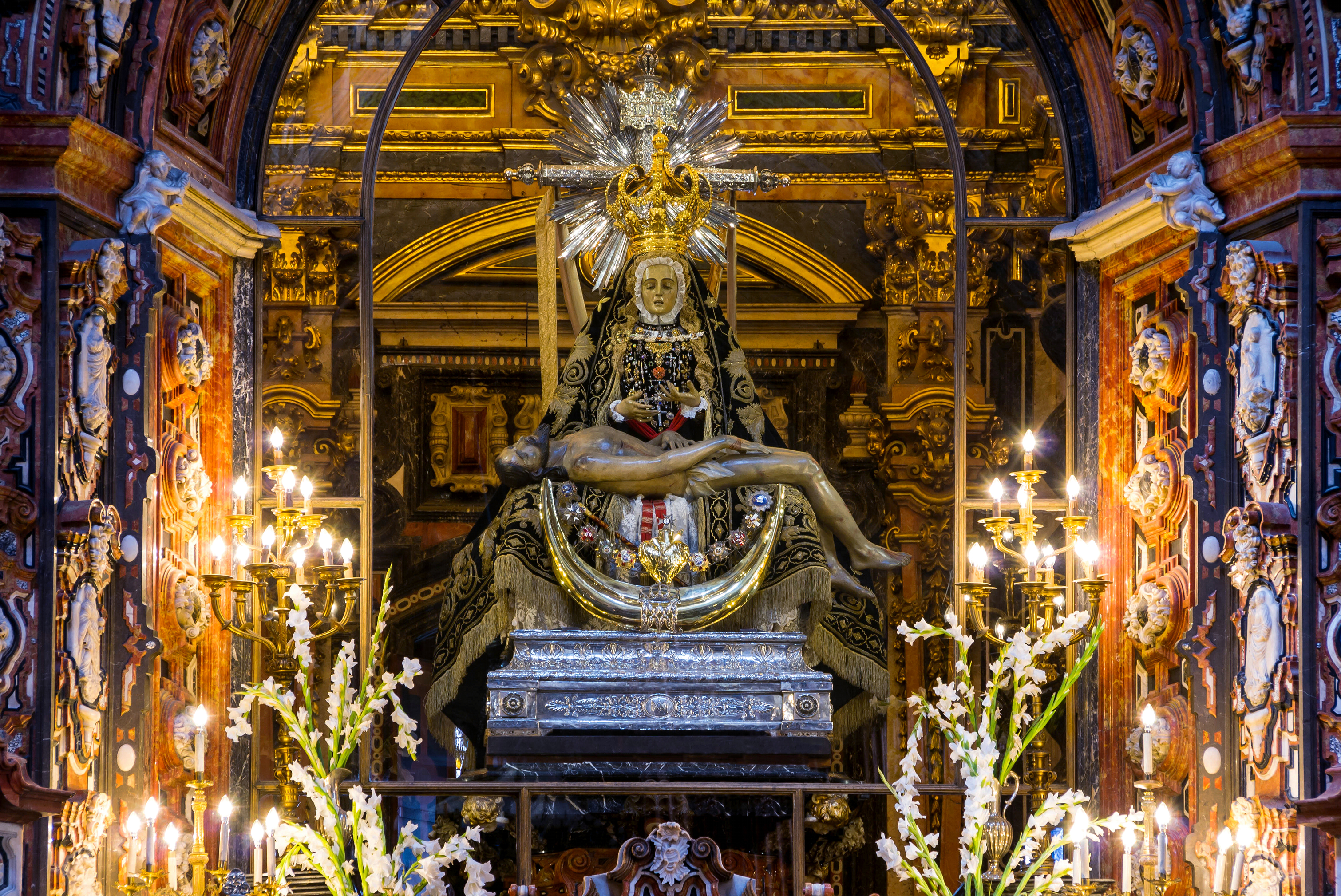 Statue of "Nuestra Señora de las Angustias", the holy patron of the city, in the same named Basilica, Granada, Spain.